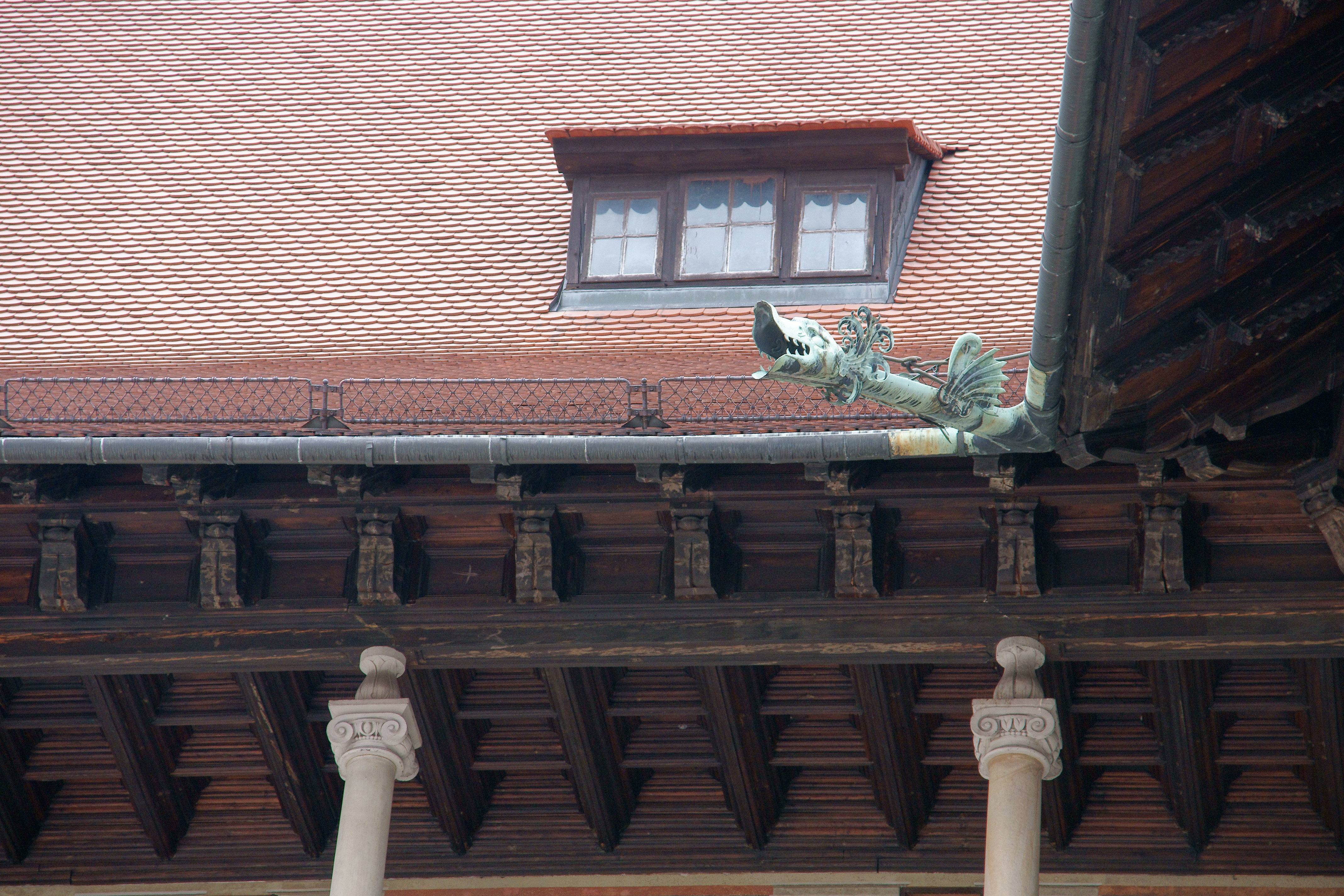 Wawel Castle, a gargoyle above the arcades.